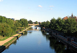 The Lee Navigation from the Eastway Bridge, August 2005.